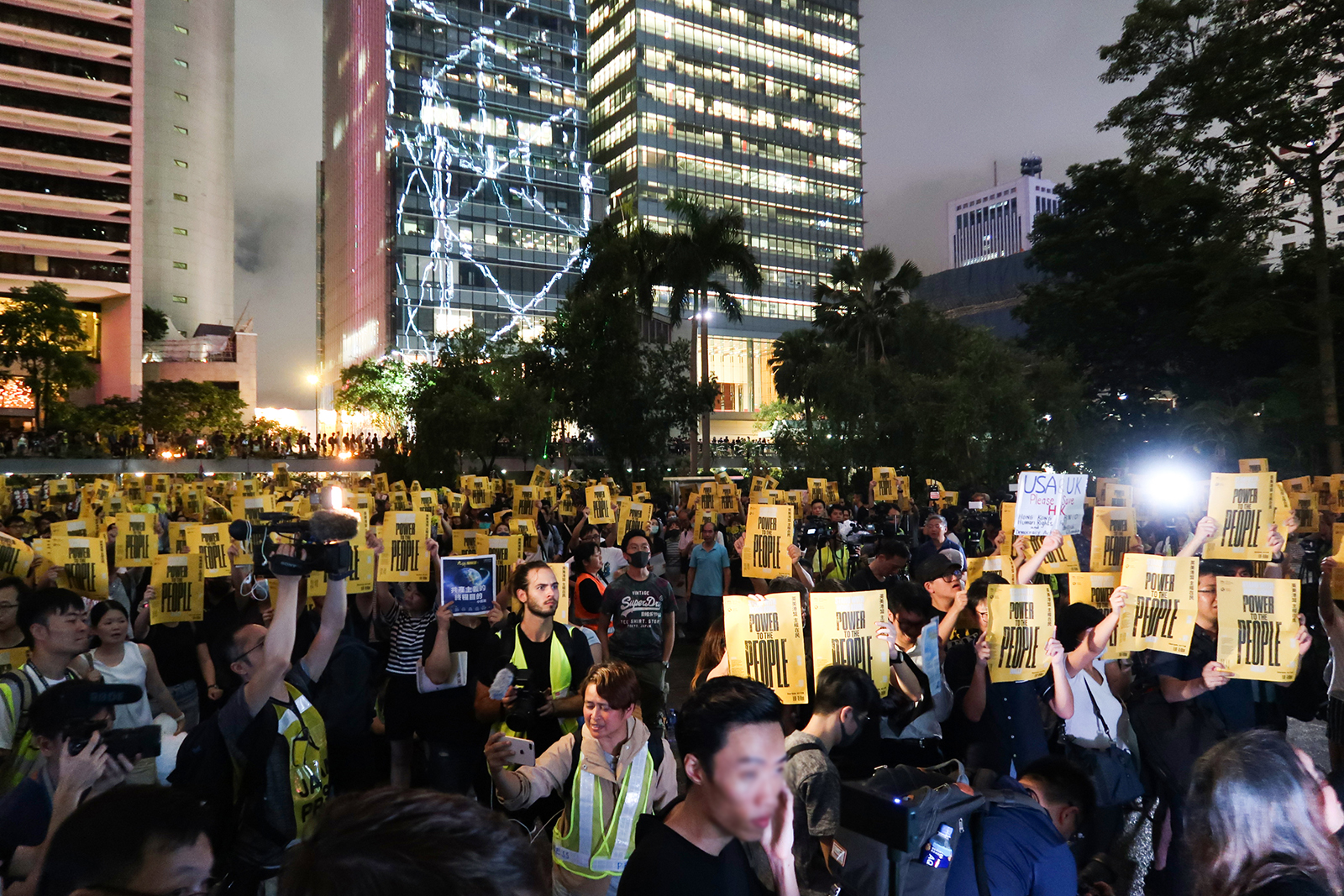 Stand With Hong Kong, Power to the People Rally